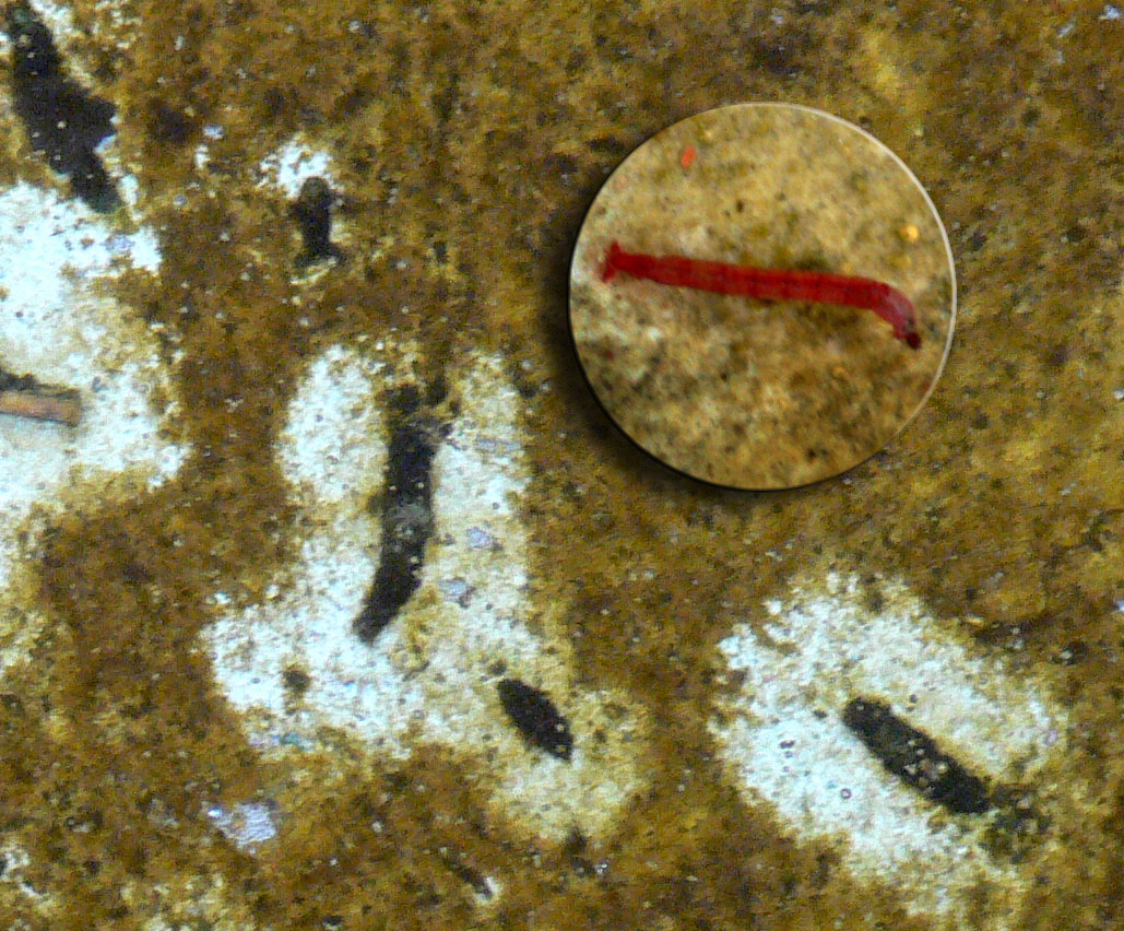 Chironomidae (or bloodworm) larva, in an artificial pound, in Lille (North of France)